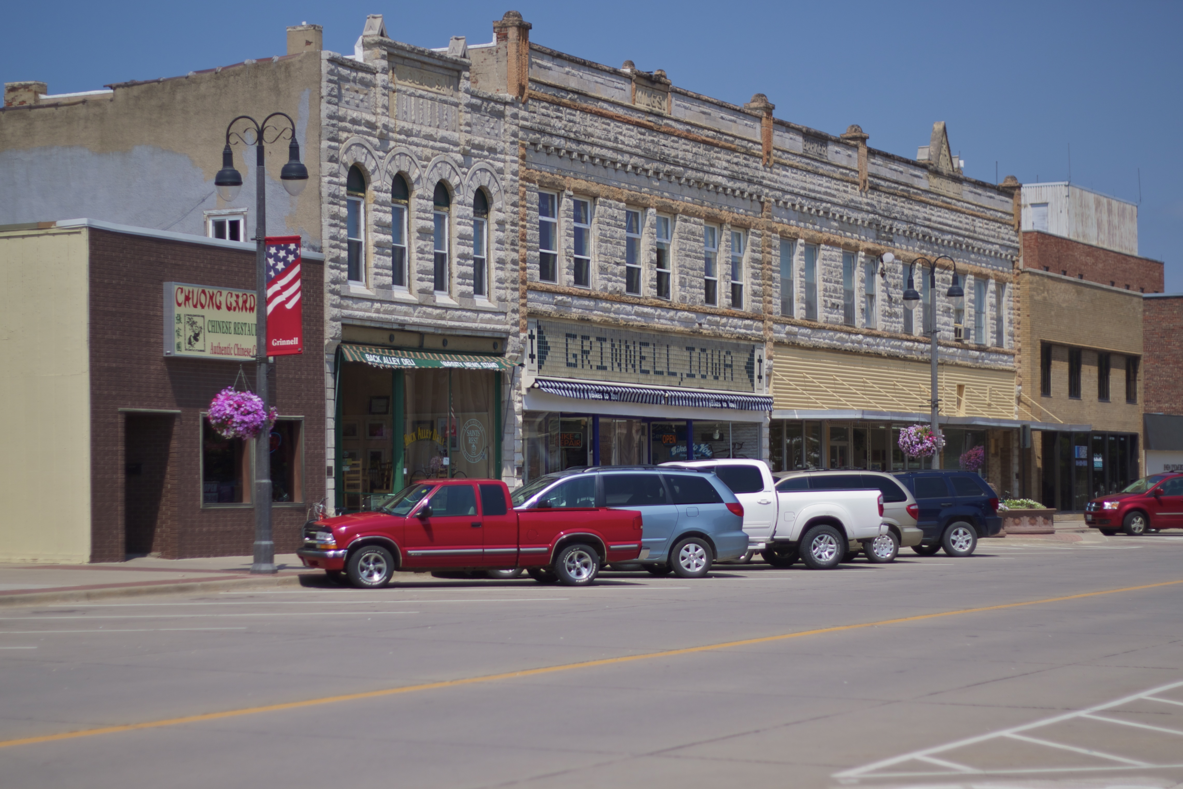 Downtown Grinnell, Iowa, USA